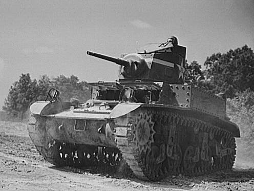 M3 Stuart light tank, used at Fort Knox, Kentucky, for training and hardening crews for the armored forces, is helping to turn out fighters who will give the Axis some new ideas of what trouble really is.